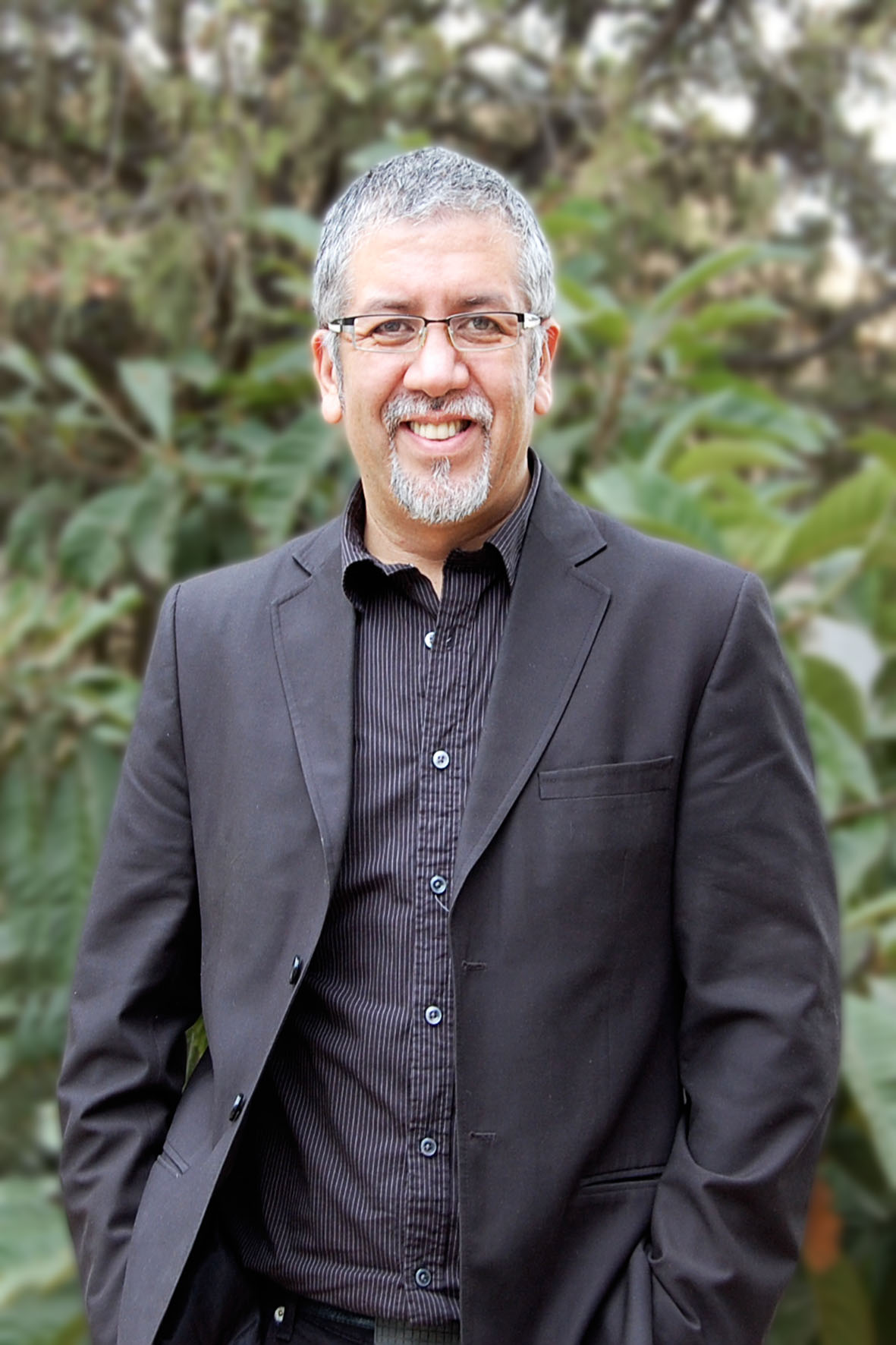 Patricio Cuevas-Parra is a Child Rights advocate that manages research and information analysis on social justice issues affecting children. Mr. Cuevas-Parra assessed relevant national laws and regulations in the light of international frameworks and instruments and has translated findings into social programs to improve the quality of life of children in developing countries. Mr. Cuevas-Parra has published six books on the topics of children’s rights advocacy, child participation, indigenous children and gender. Photo taken in January 2011.